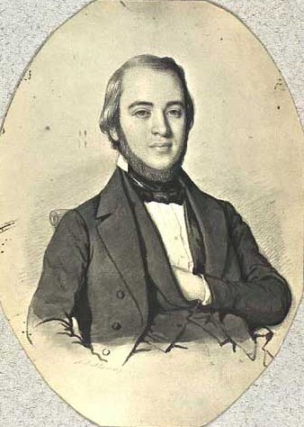 David Baruch Adler (1826-1878), Danish banker